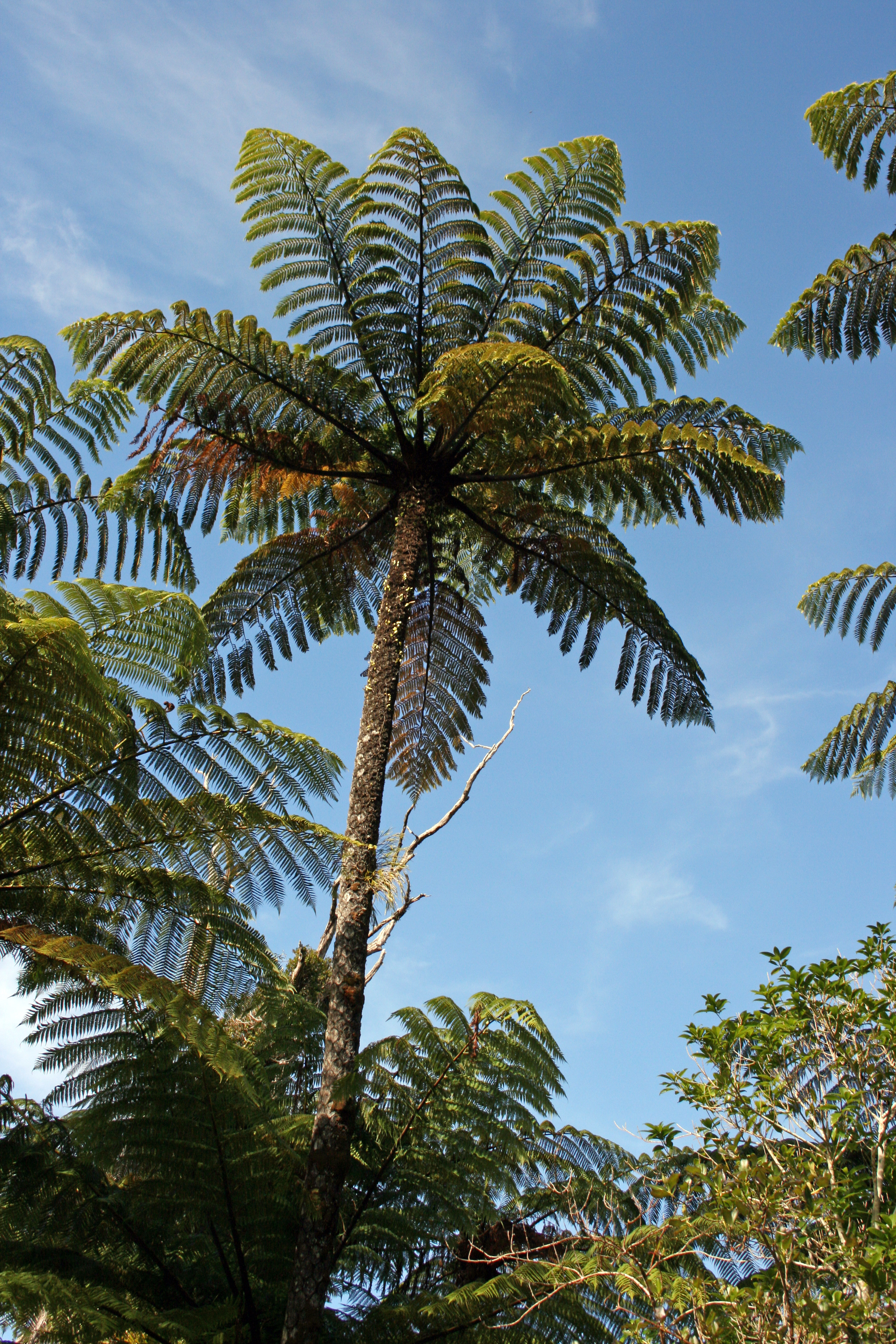 Cyathea medullaris, Mamaku or Black Tree Fern growing in the Waitakere Ranges, near Auckland, New Zealand